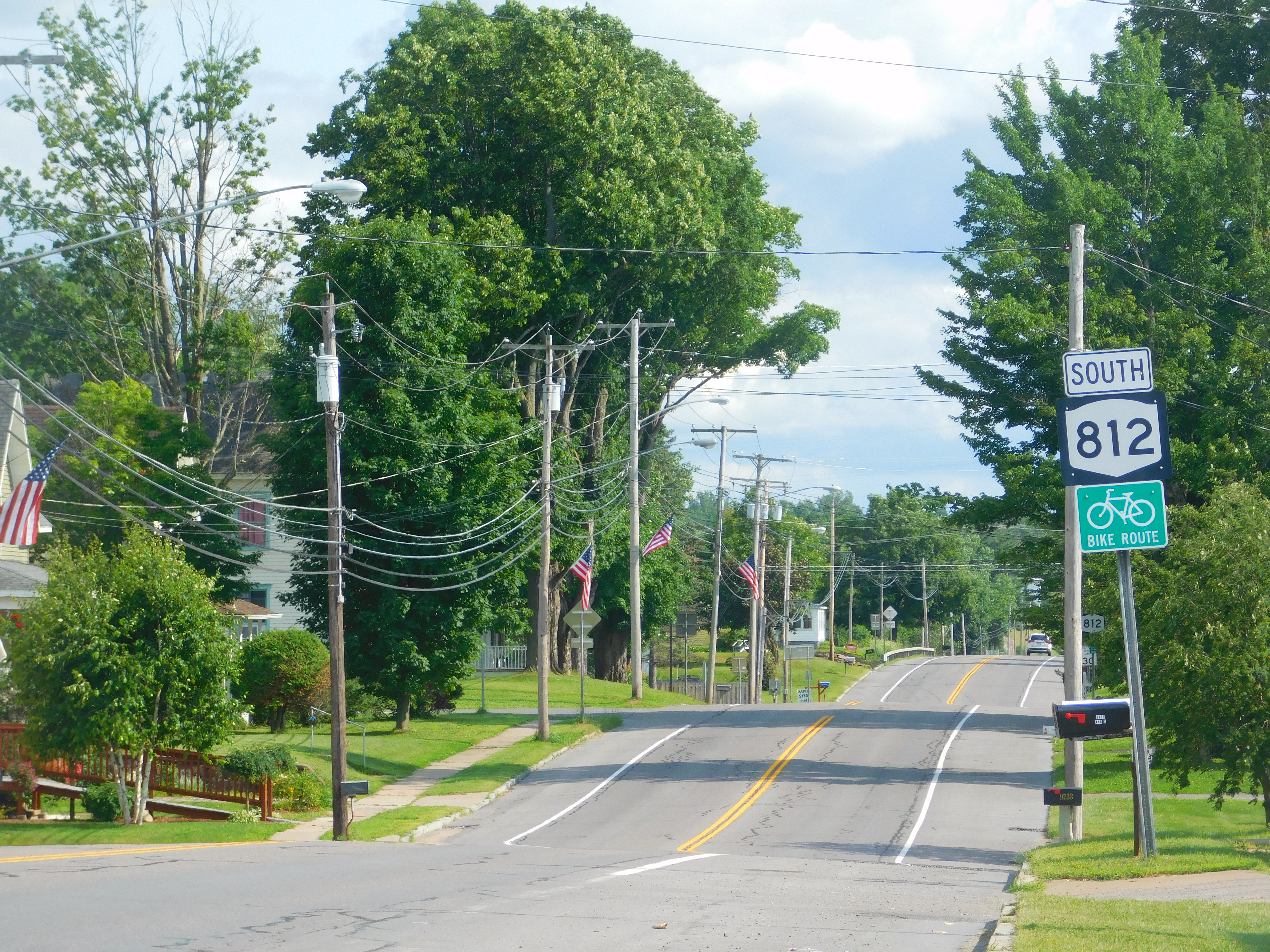 New York State Route 812 in Croghan, New York.